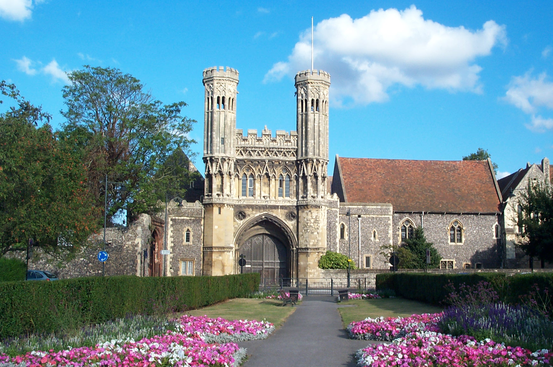 Great Gate of St. Augustine's Abbey, taken Sep 2002